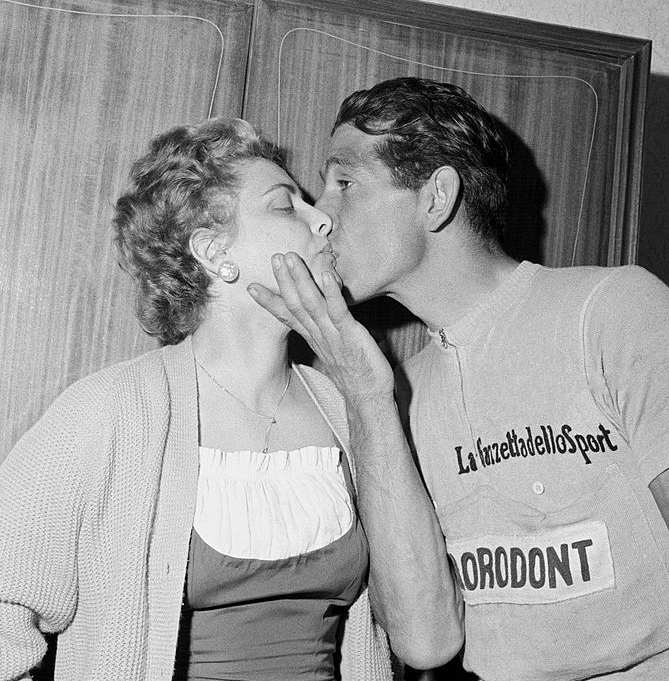 Italian cyclist Gastone Nencini kissing his wife Bianca wearing the pink jersey got by winning at Giro d'Italia 1957. Milan, June 1957